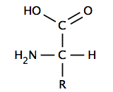 typical structure of an α-amino acid